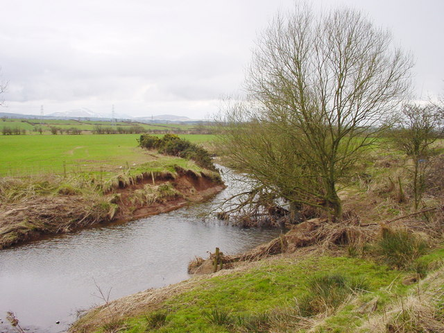 River Waver. At Waverbridge Mill.